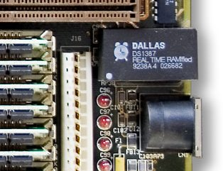 Crop of motherboard to show DALLAS real-time clock.